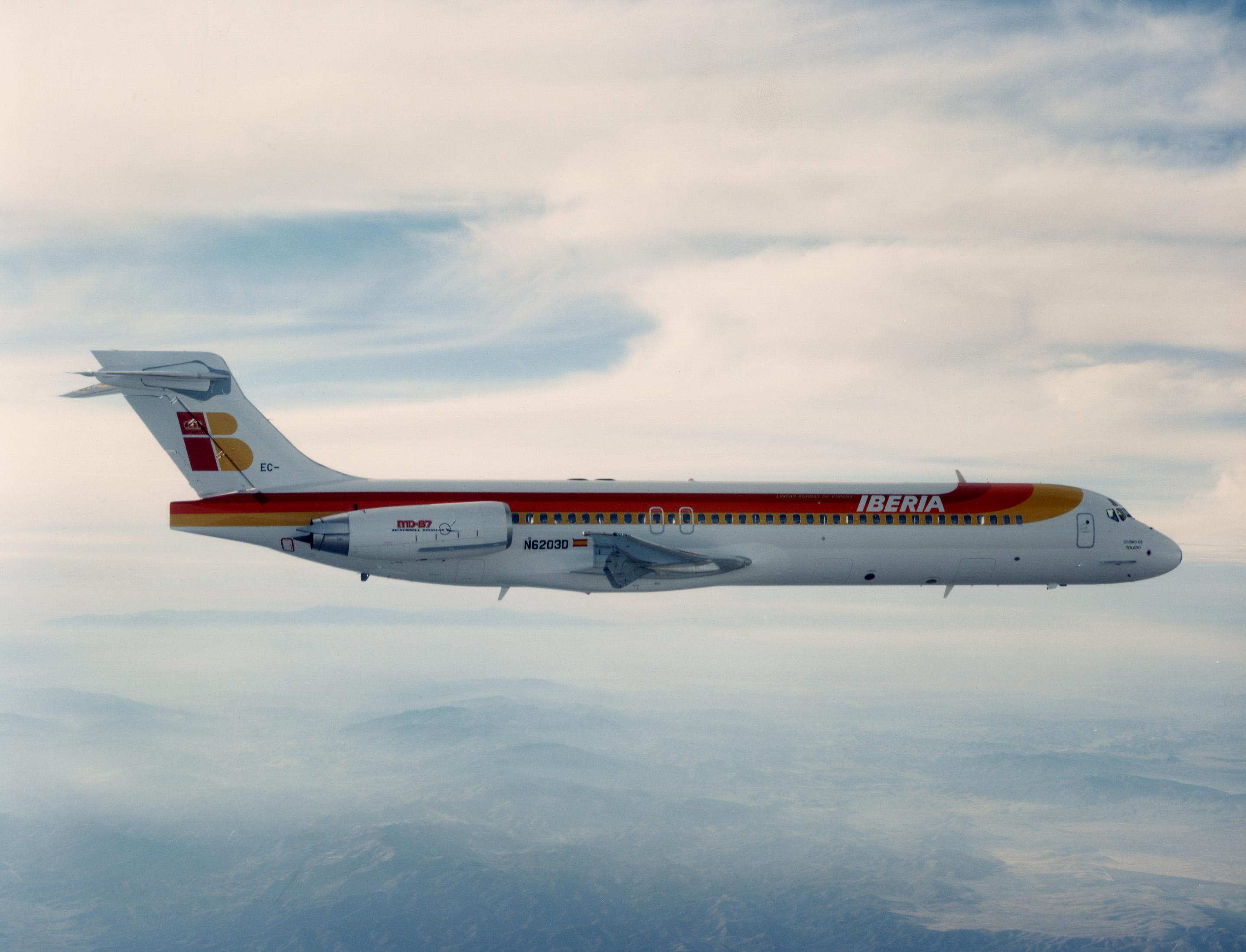 MD-87 EC-GRL CIUDAD DE TOLEDO to SPANAIR as EC-EUD